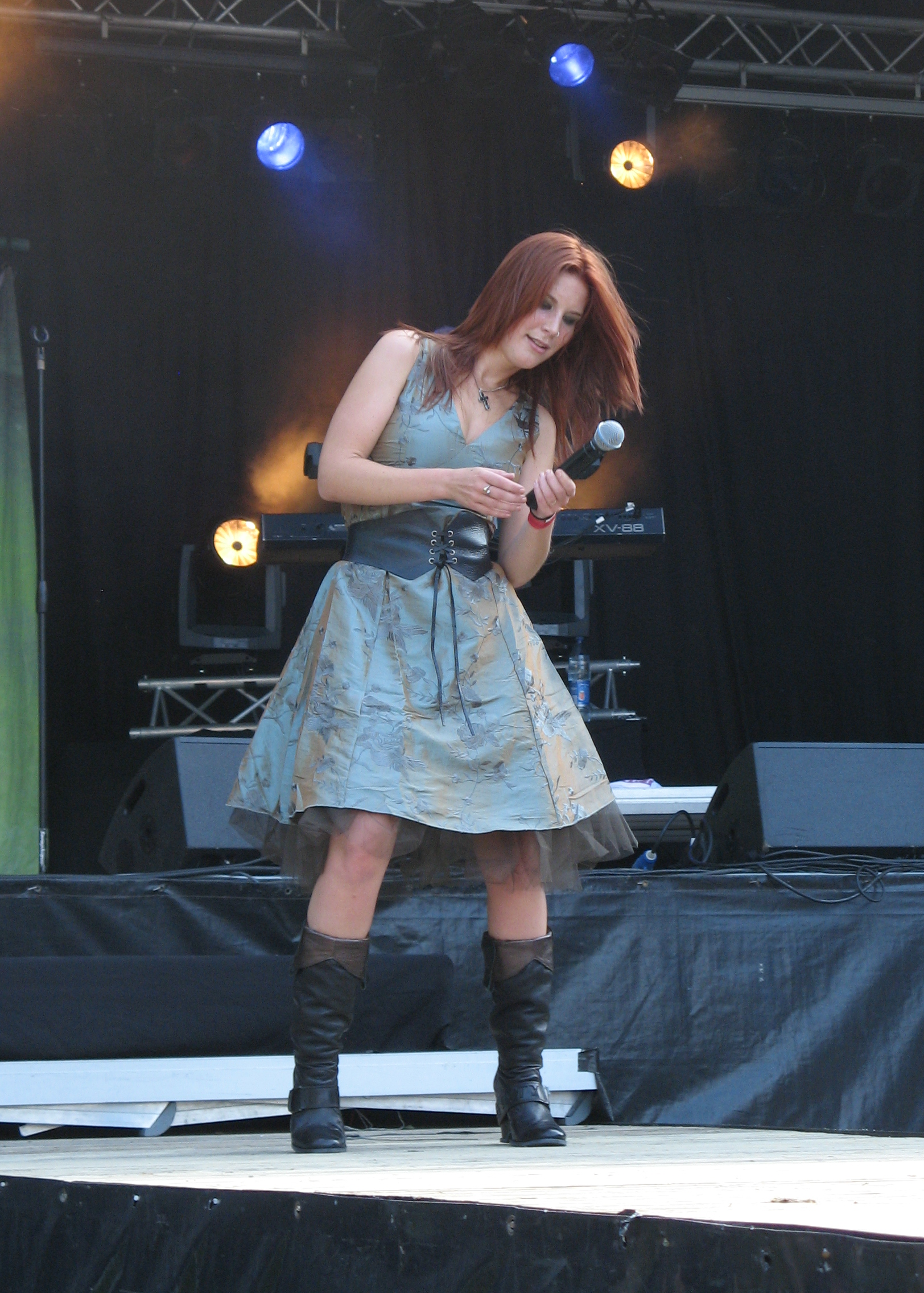 Charlotte Wessels of Delain on Westerpop 2007.